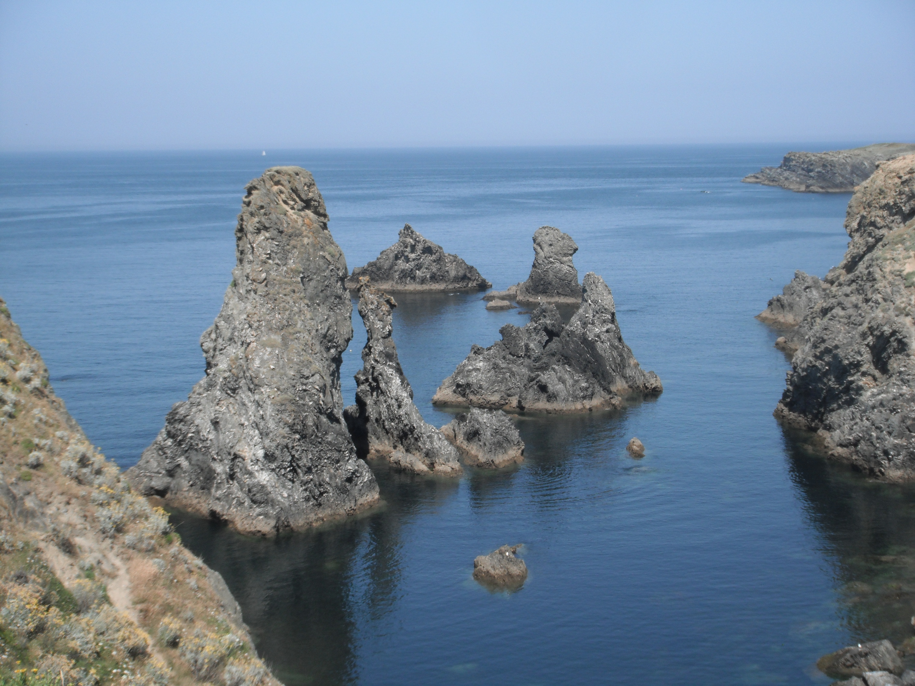 The Port-Coton needles.